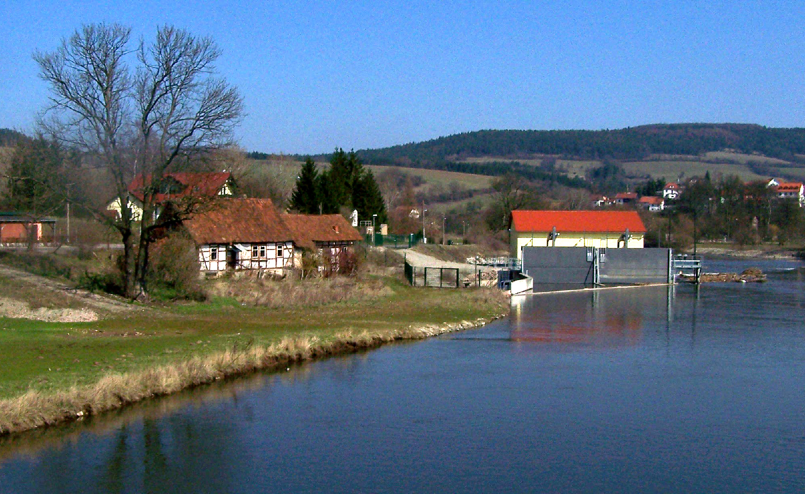 The hydroelectric power plant in Mihla at river Werra.